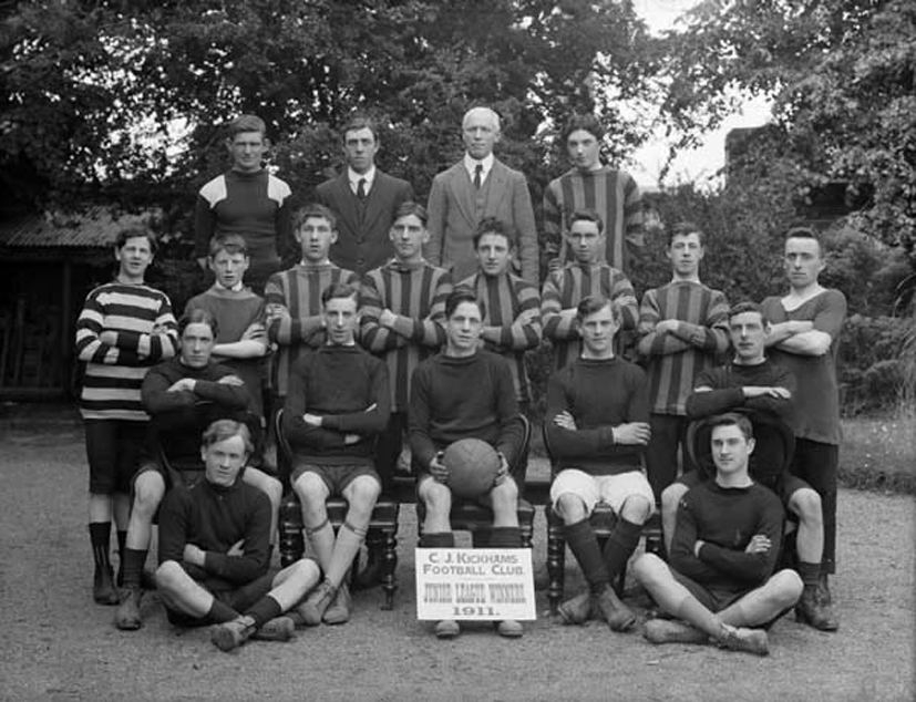 C.J. Kickham's GAA Football Club, who had been Junior League Winners in 1911. This club was named after Charles J. Kickham (1828-1882), author and Fenian. Think they were either a Dublin or Tipperary club? Date: 11 August 1912 NLI Ref.: P_WP_2392